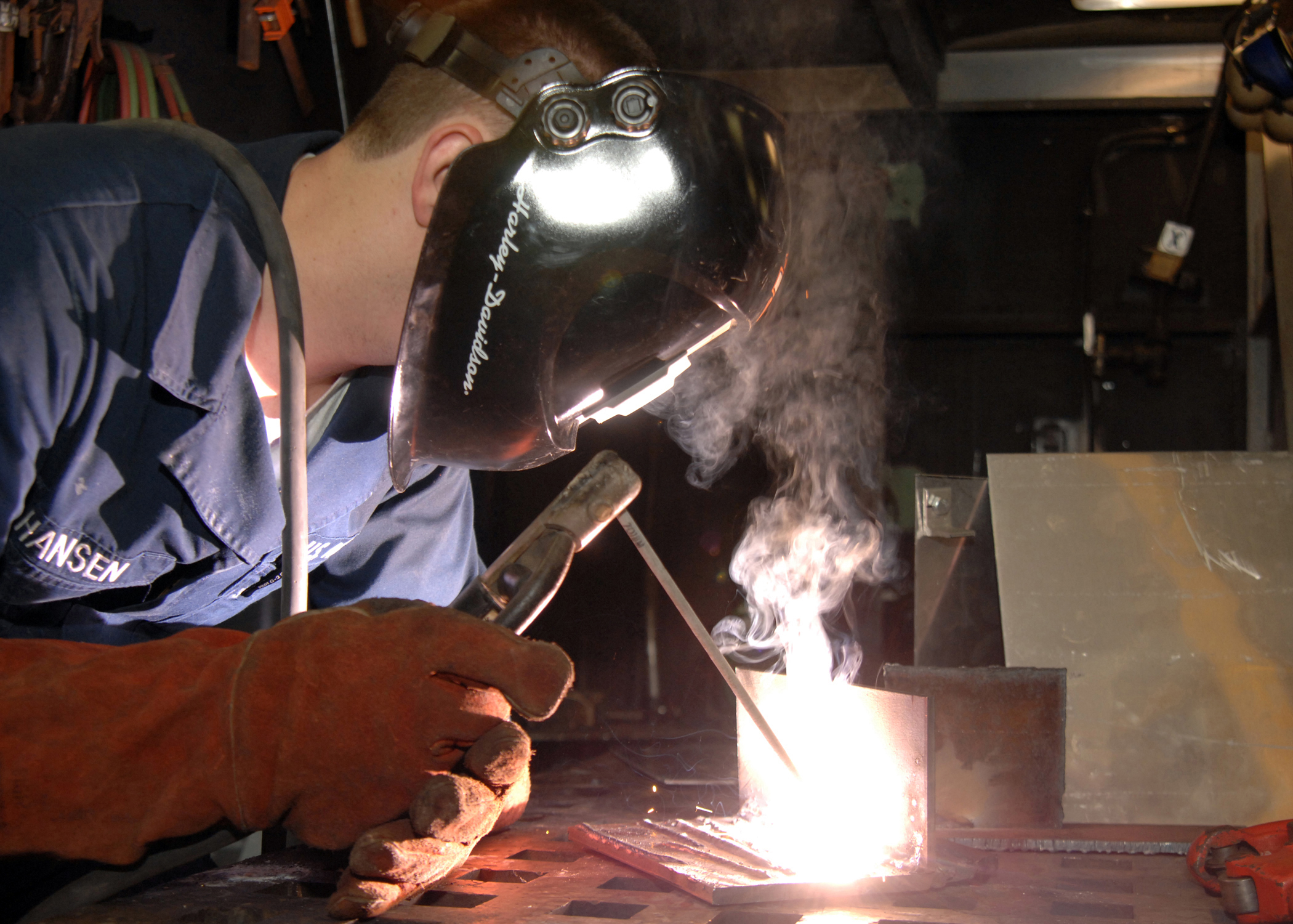 ATLANTIC OCEAN (Jan. 14, 2009) Hull Technician Fireman John Hansen, from Sarasota, Fla., lays beads for welding qualifications aboard the Nimitz-class aircraft carrier USS Dwight D. Eisenhower (CVN 69) during the Carrier Strike Group (CSG) 8 composite unit training exercise (COMPTUEX). COMPTUEX is a training exercise to test capabilities and ensure readiness before deployment. (U.S. Navy photo by Mass Communication Specialist Seaman Apprentice Ridge Leoni/Released)